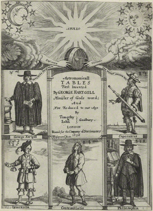 Title page from the second edition of Astronomicall Tables (1656) by George Hartgill